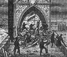 . This image is cropped from a larger panel showing various depictions of the Prague 1848 disturbances.